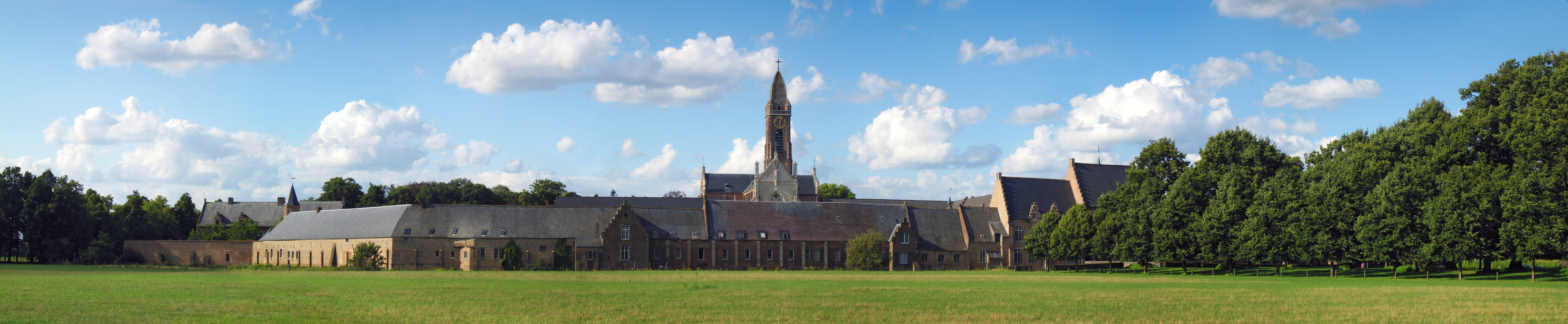 Panorama of the Norbertine monastery at Tongerlo, Belgium.